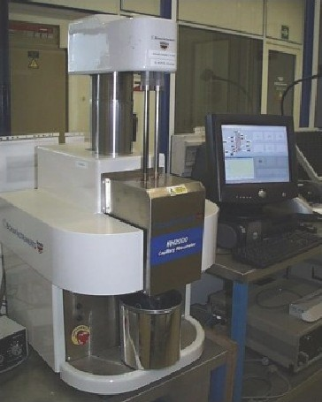 High pressure (maximum force 20 kN) capillary rheometer Rosand Bohlin Instrument model RH2200.